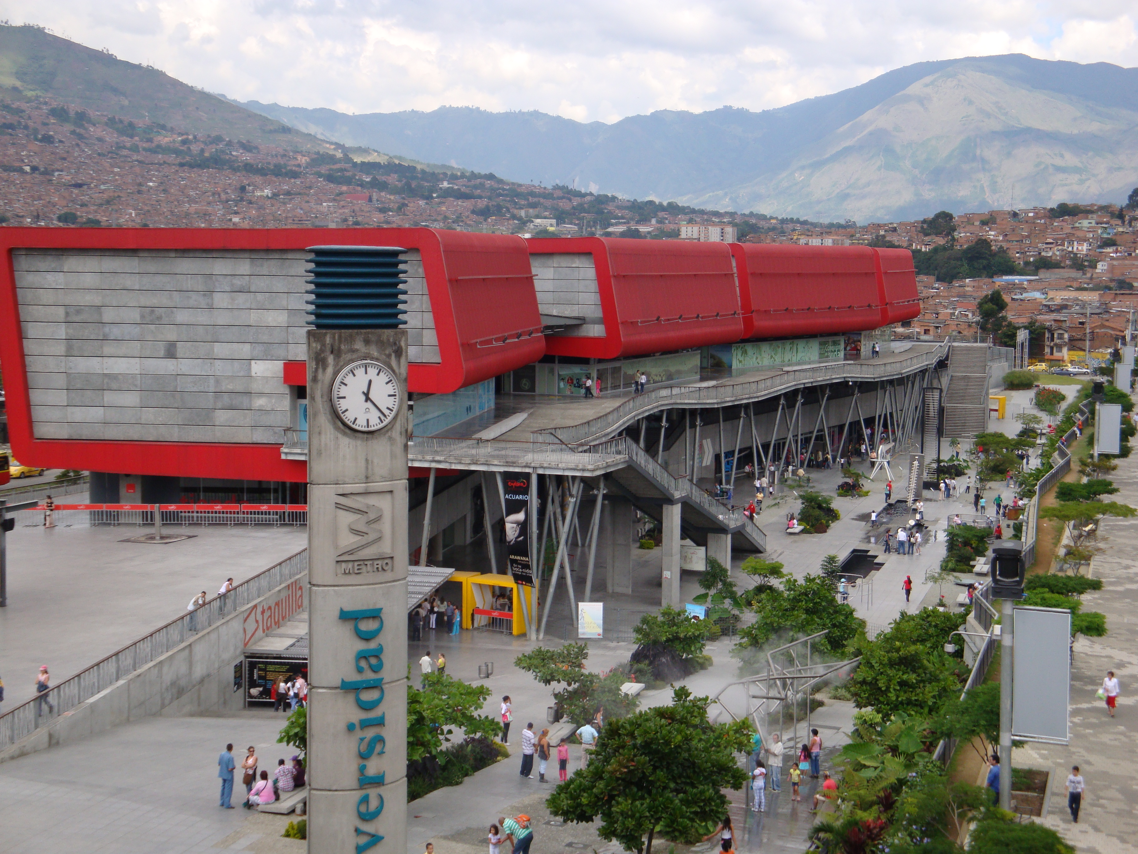 Parque Explora. from Metrostation Universidad, Medellín, Colombia.